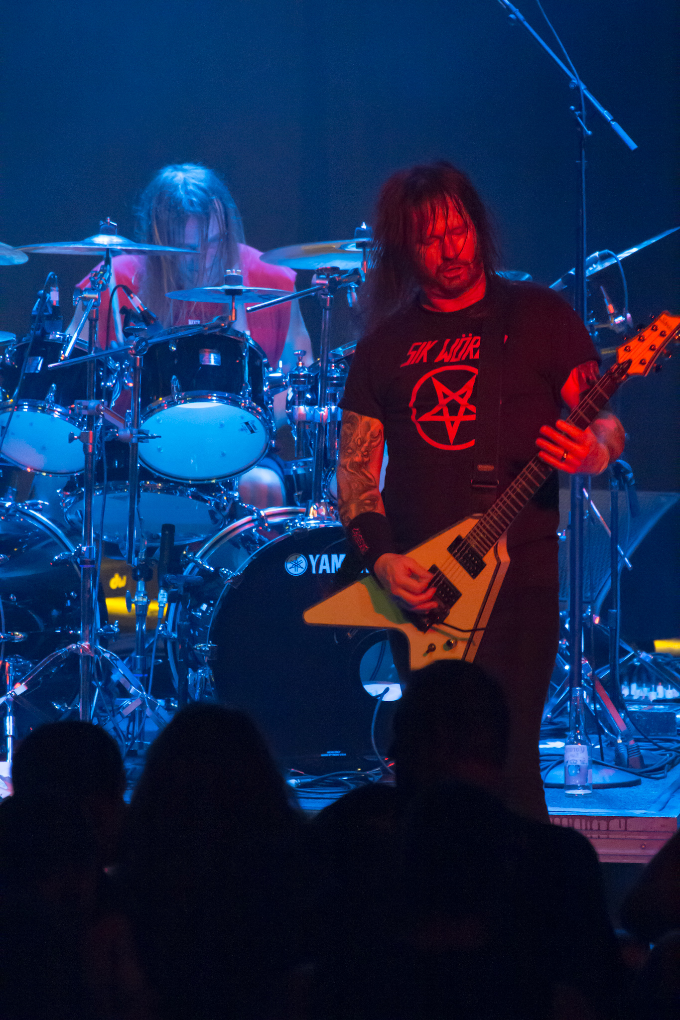 Exodus on the Barge to Hell, Dec. 2012